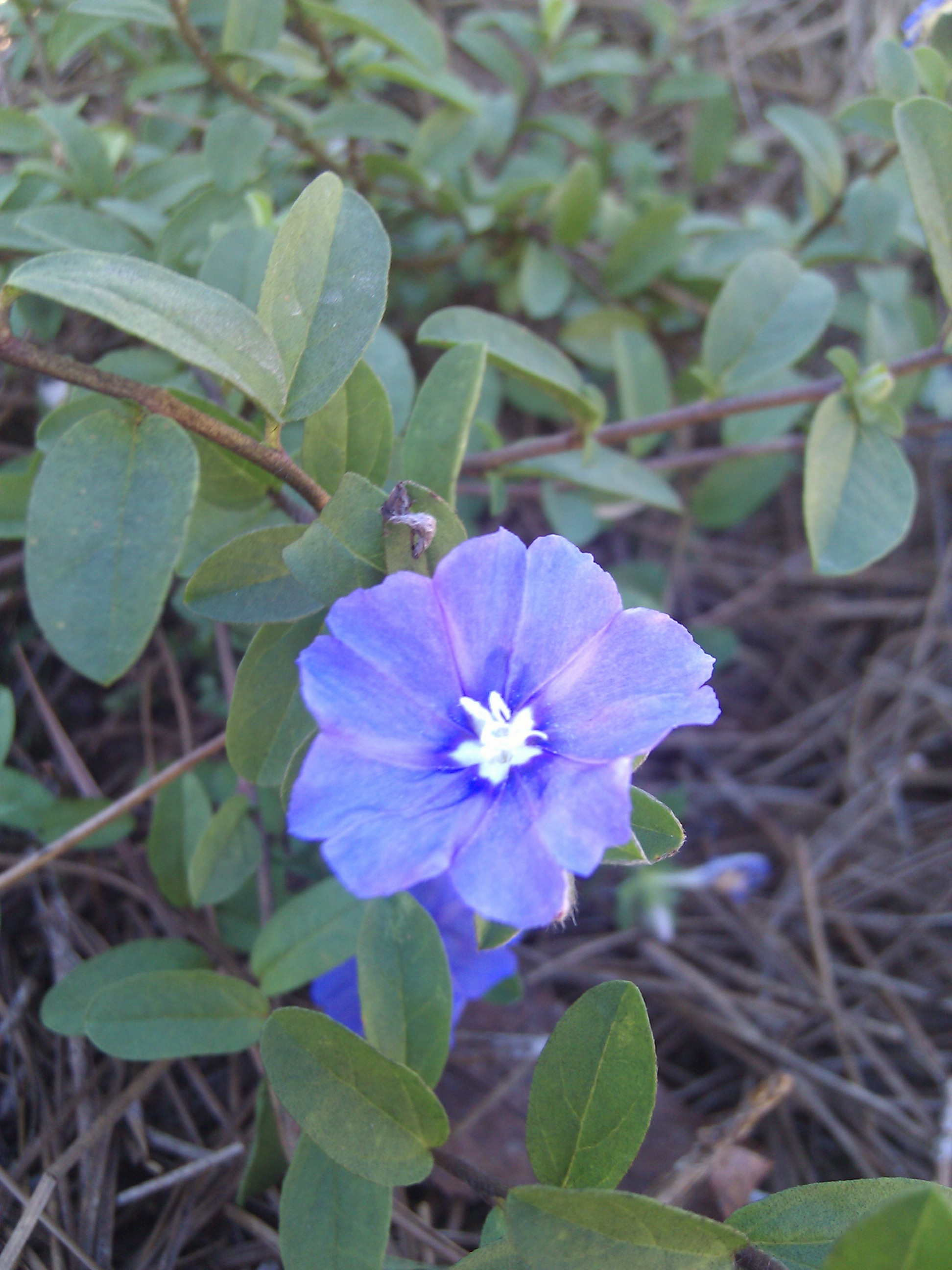 "Blue Daze" cultivar of Evolvulus glomeratus, freshly planted in pine straw mulch. The flowers bloom all summer long and are about 1 inch (2.5 cm) across, with five pale lavender or powder blue petals and white centers. The oval leaves and woody stems are densely downy, covered with a light silvery fuzz.